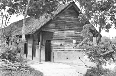 Australian War Memorial caption: Kuching, Sarawak, Borneo. 1945-09-24. Kuching Force. Camp hospital and Prisoner of War mortuary at Lintang barracks, Kuching. Coffins were made with removable lids [sic - actually hinged bases] and used over and over again for burials.